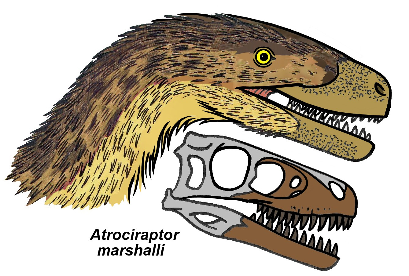 Restoration of the head in the dromaeosaurid dinosaur Atrociraptor. It had shorter snout than most other dromaeosaurids. References. Fossil slab with Atrociraptor skull pieces. Comparison between skulls of Atrociraptor and Velociraptor. Illustrated reconstruction of Atrociraptor skull Atrociraptor skull pieces.